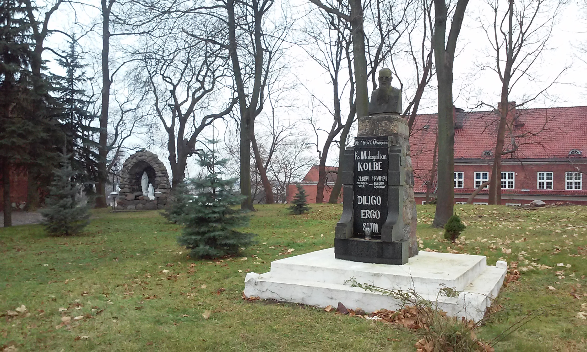 Zalewo, Warmian-Masurian Voivodeship, Poland